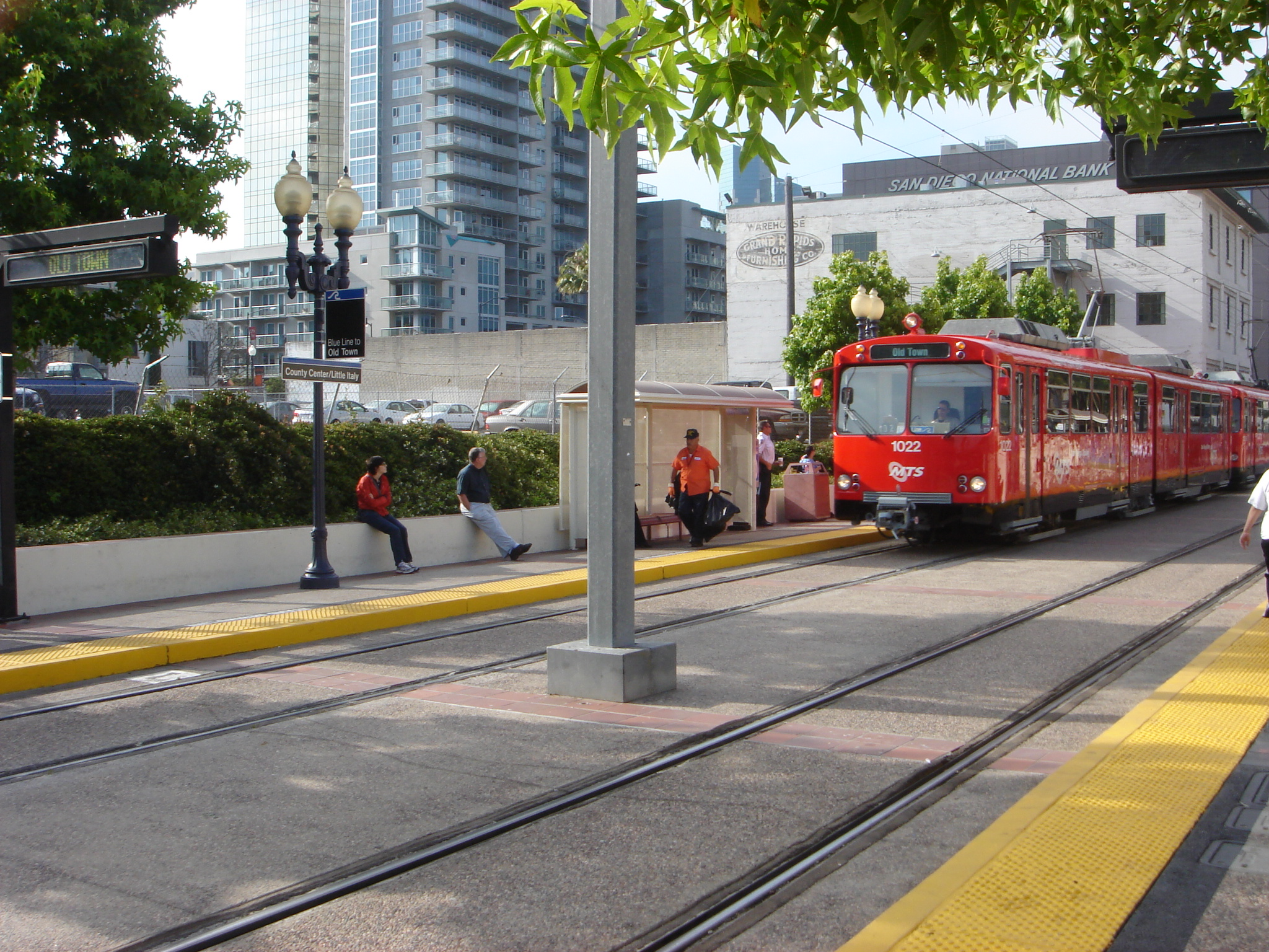 County Center/Little Italy Trolley Blue line station